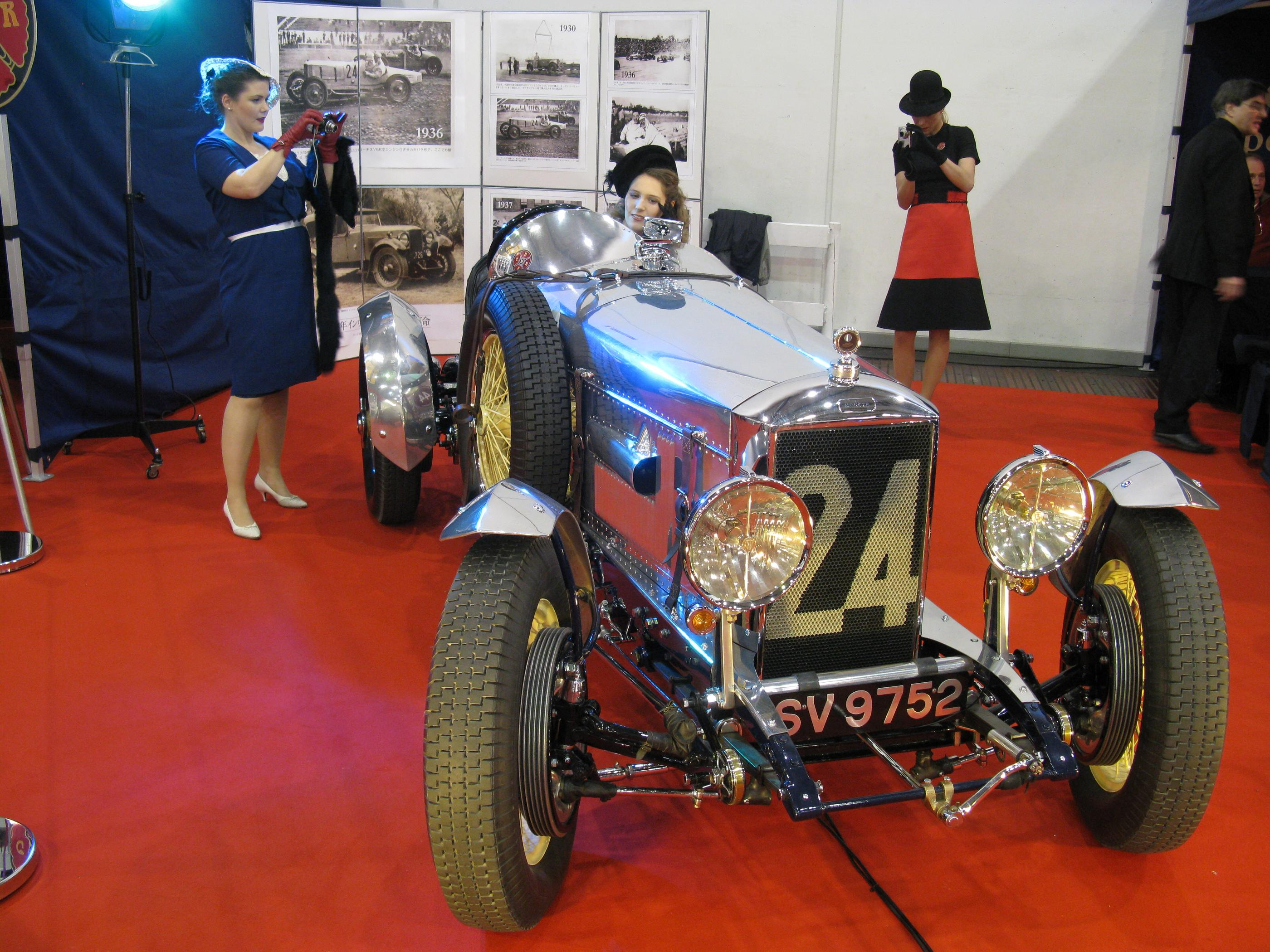 Invicta 4.5 Litre Competition 1928